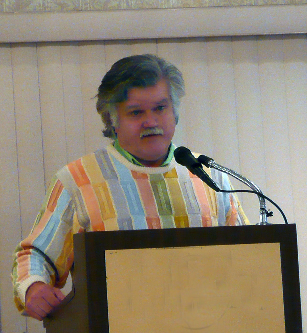 Photograph of William C. Davis at 2009 Sarasota Civil War Conference. Note that this photo was taken in poor conditions and the color quality is lacking. If anyone can tweak or replace it, be my guest.